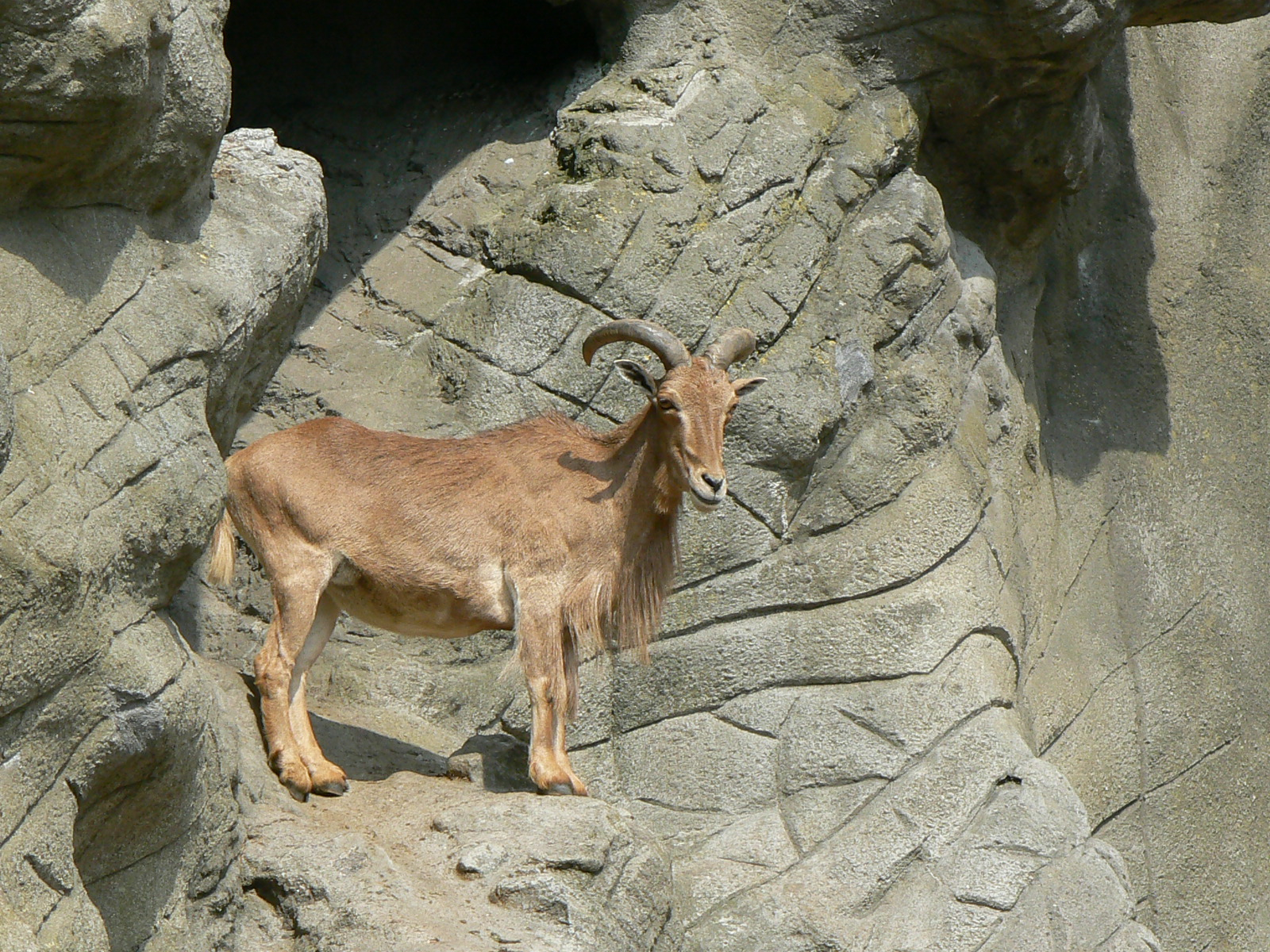 barbary sheep / Ammotragus lervia /Mähnenspringer